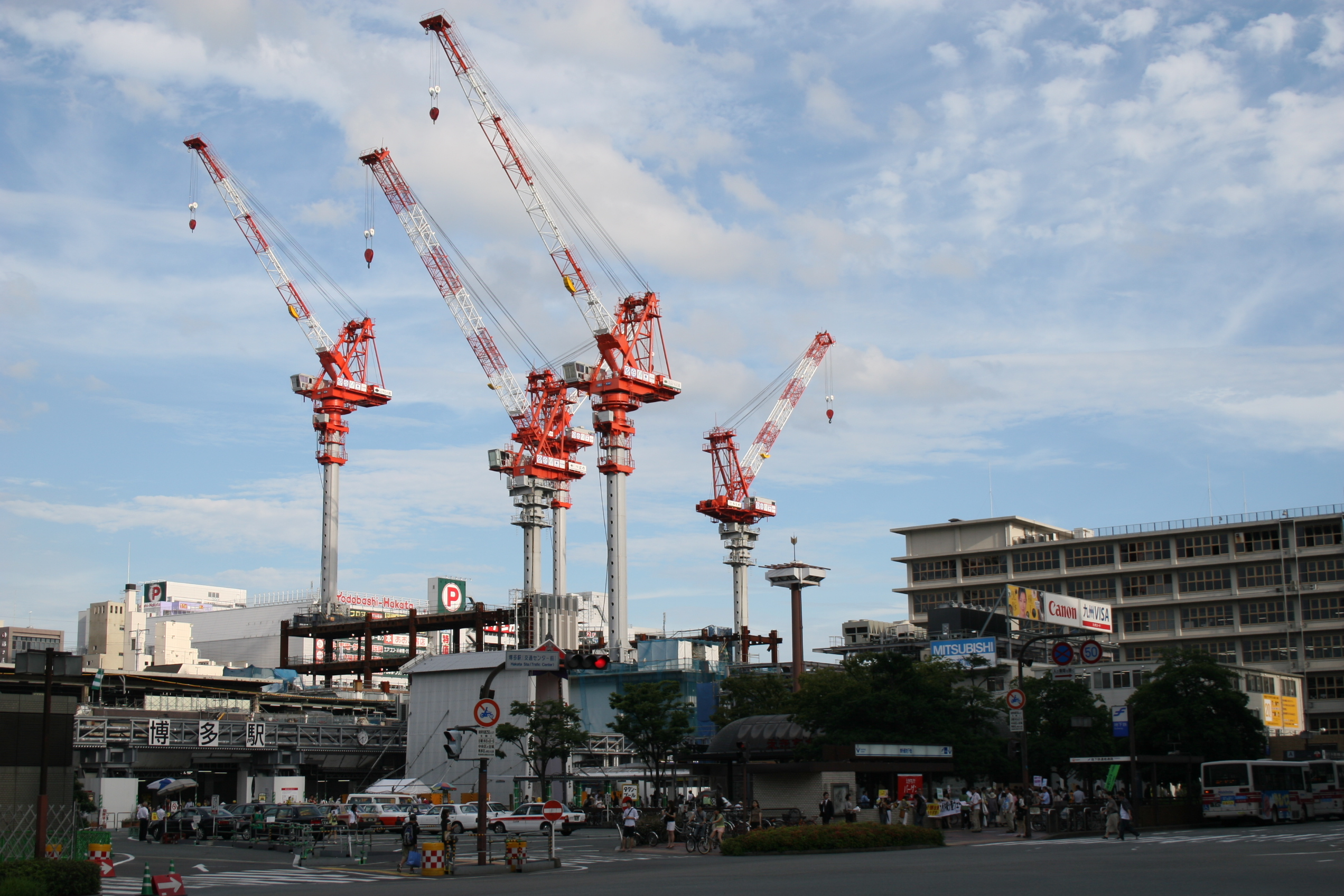 Hakata railway station building in Fukuoka, Japan under construction with several tower cranes